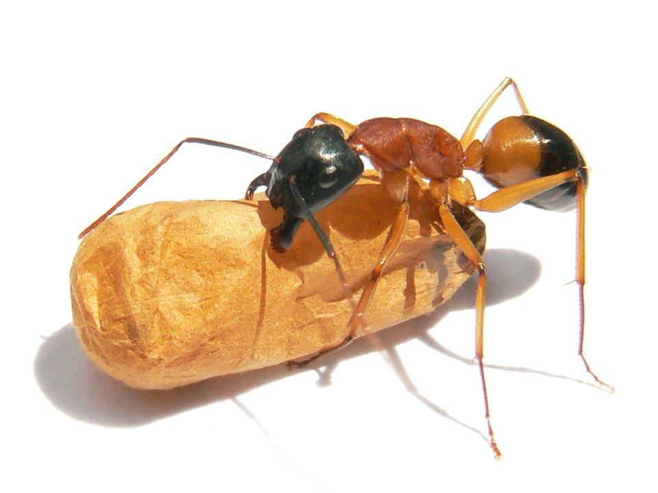 Camponotus consobrinus - Black headed sugar ant - australia